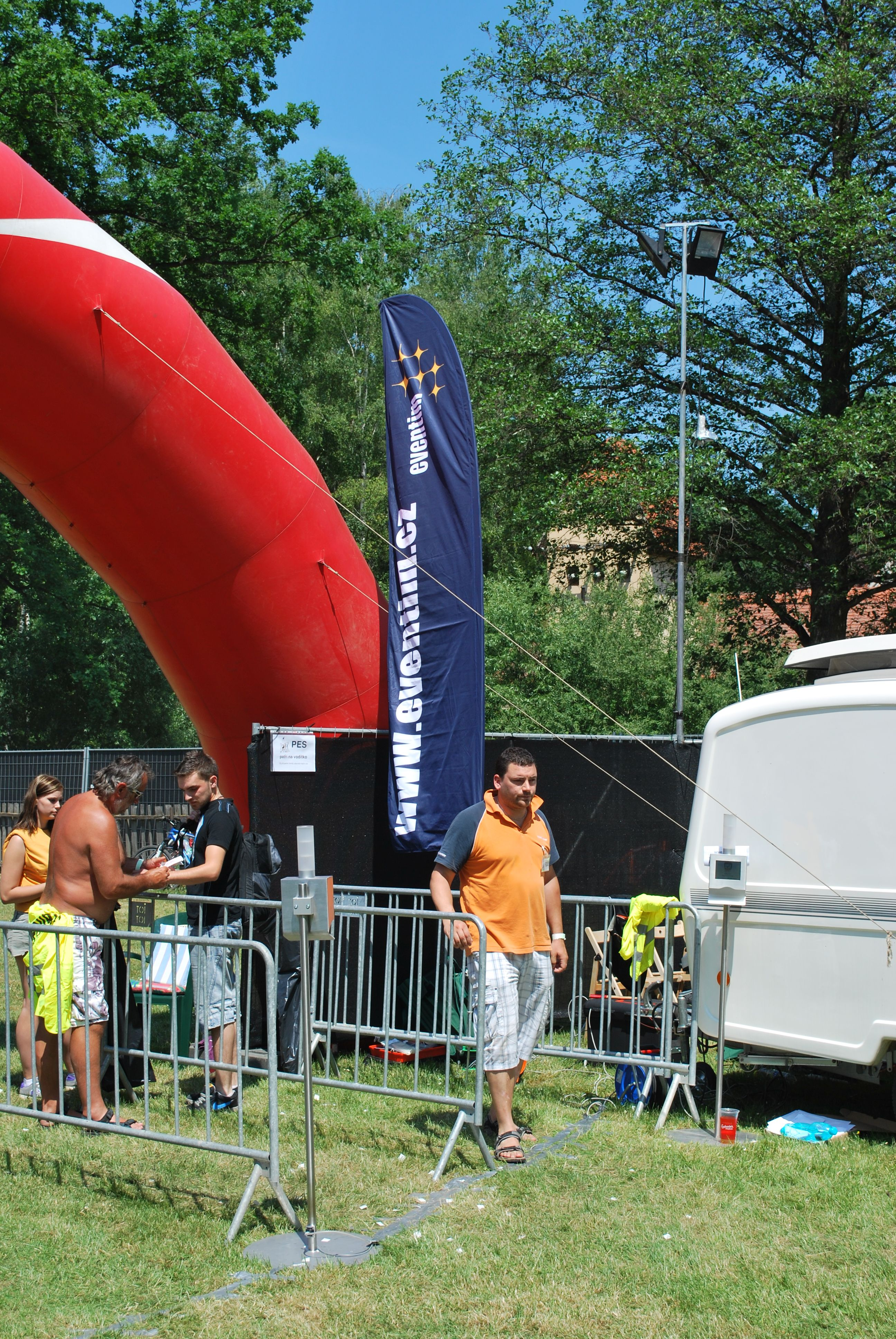 Eventim at music festival Okoř se štávou 2011